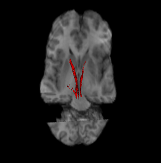 Nigrostriatal tract (Left and Right in red) superimposed over a representative DTI image.